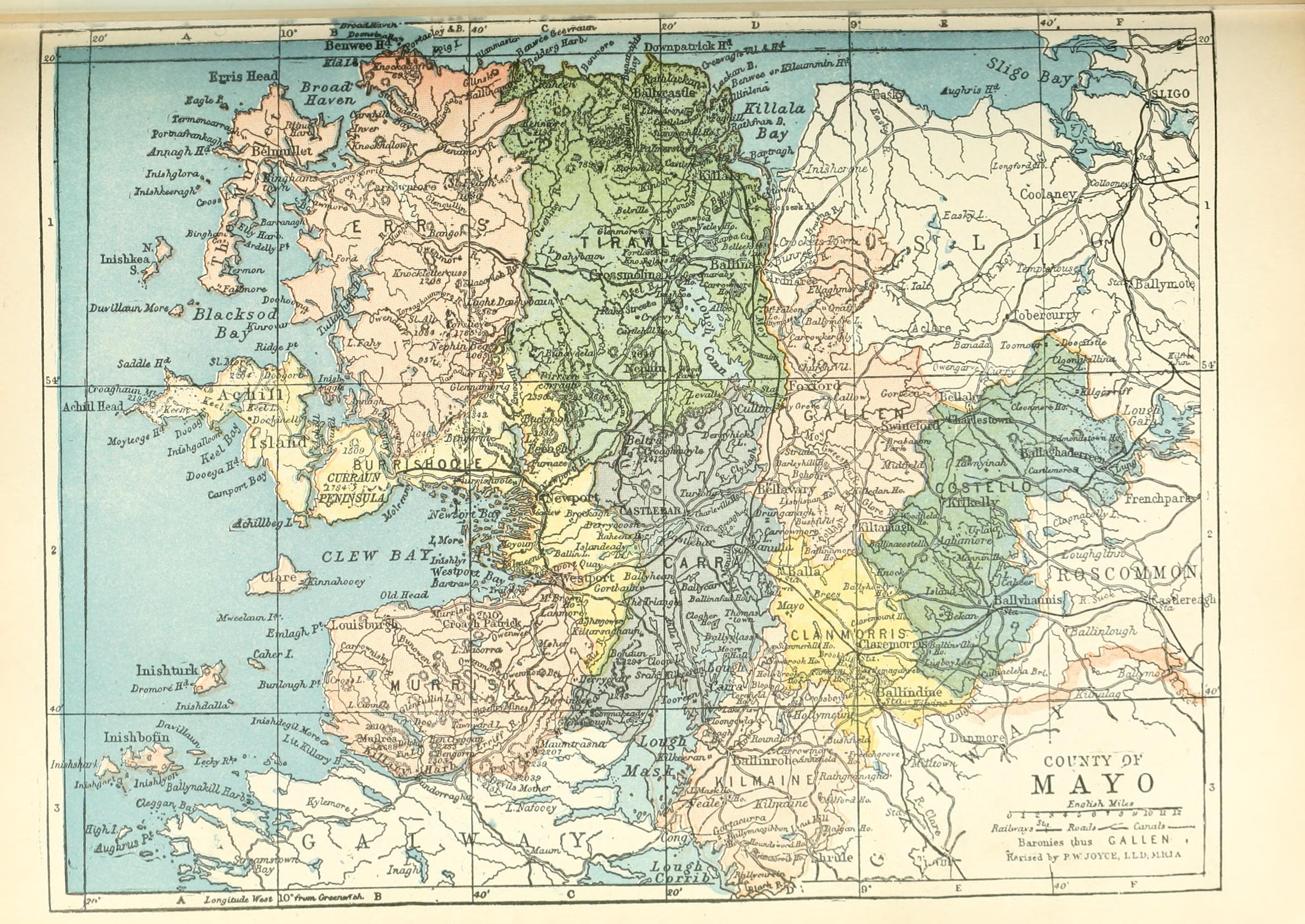 Map of the baronies of County Mayo in Ireland; taken from Atlas and cyclopedia of Ireland, p.228